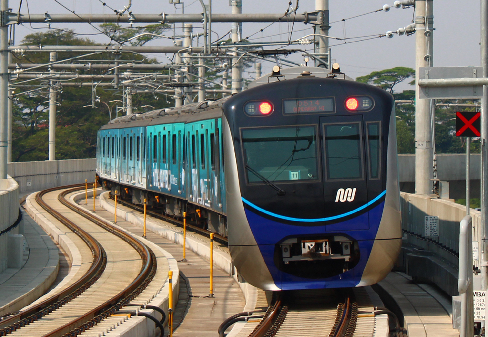 Jakarta MRT TS11 leaving Haji Nawi Station.